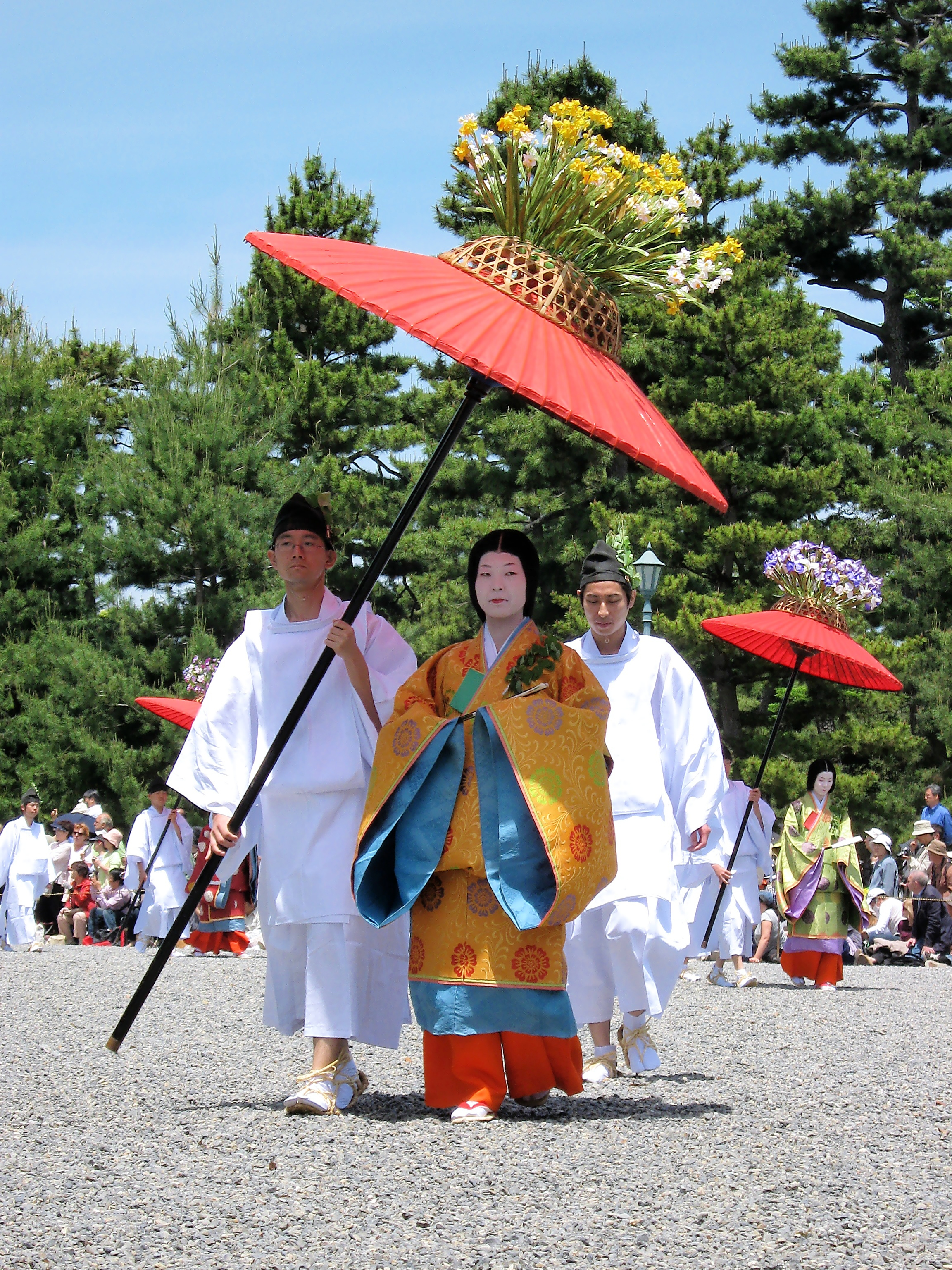 In Apr/May 2009, I took 15 days to walk all the way from Tokyo to Kyoto, roughly following the 546km long, ancient highway, the Nakasendo, alone. This picture was taken during the free week I had in Japan after the walk. Read about my preparations and my time in Japan at .